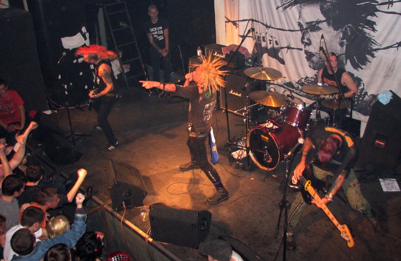 The Casualties, New York punk band, during "Under Attack. European Tour 2007" gig in Polish city Gdynia.